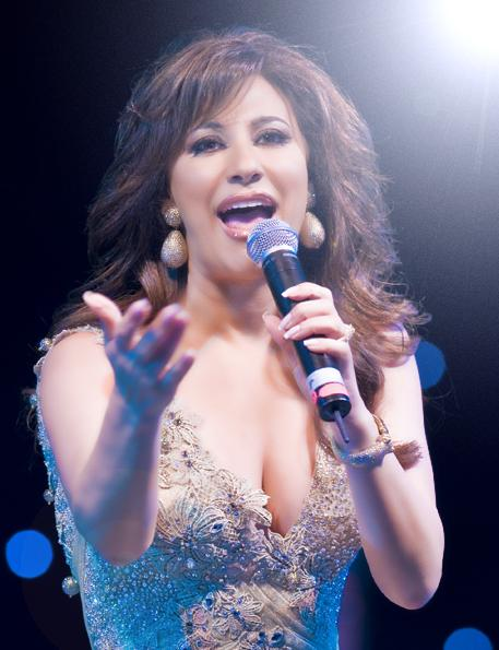 Najwa Karam is a Lebanese singer.